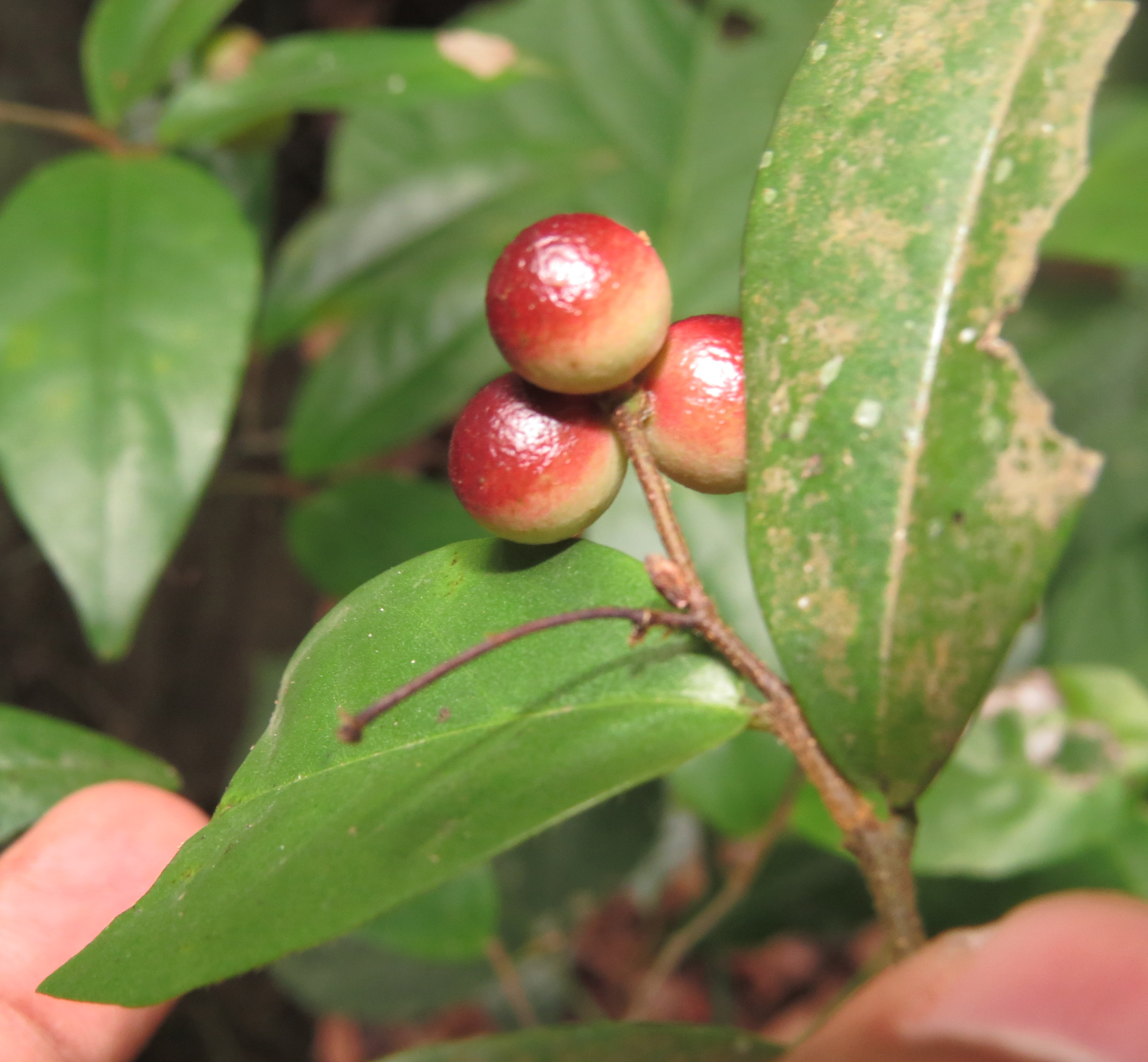 Orophea malabarica